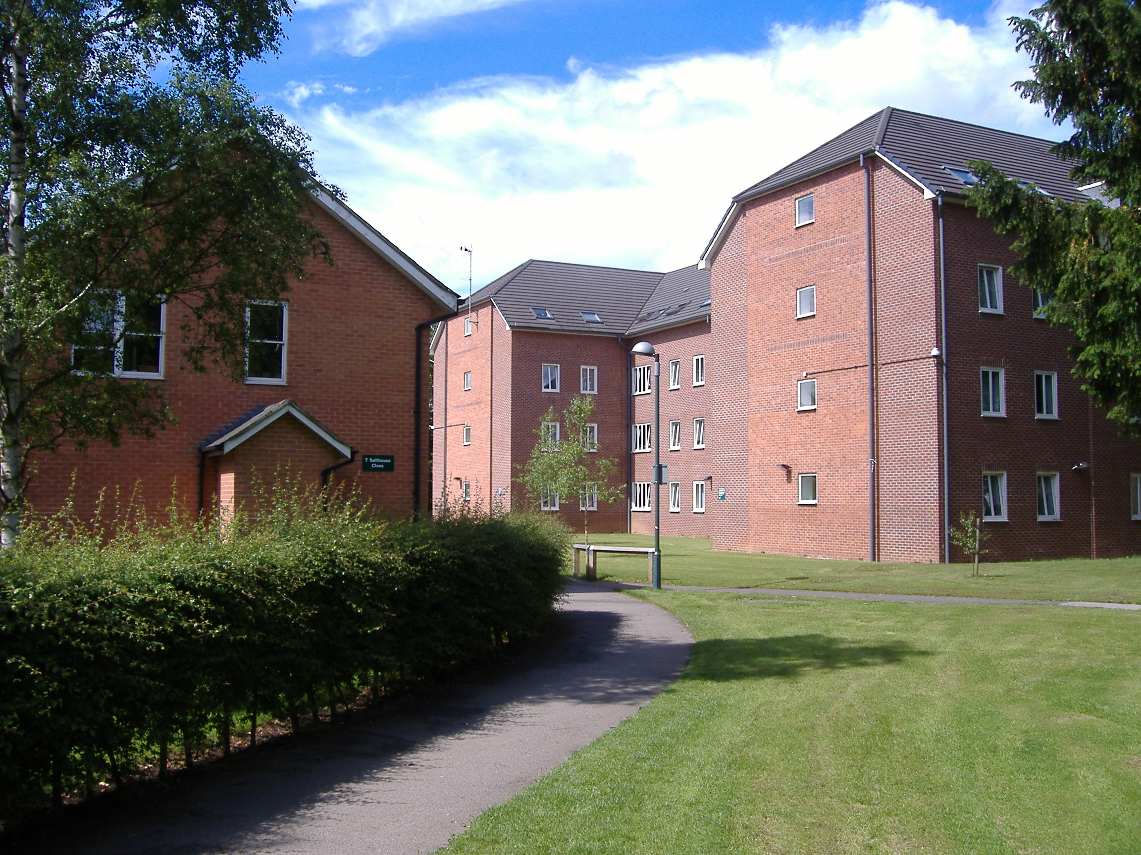 Broadgate Park - lots of boring halls.